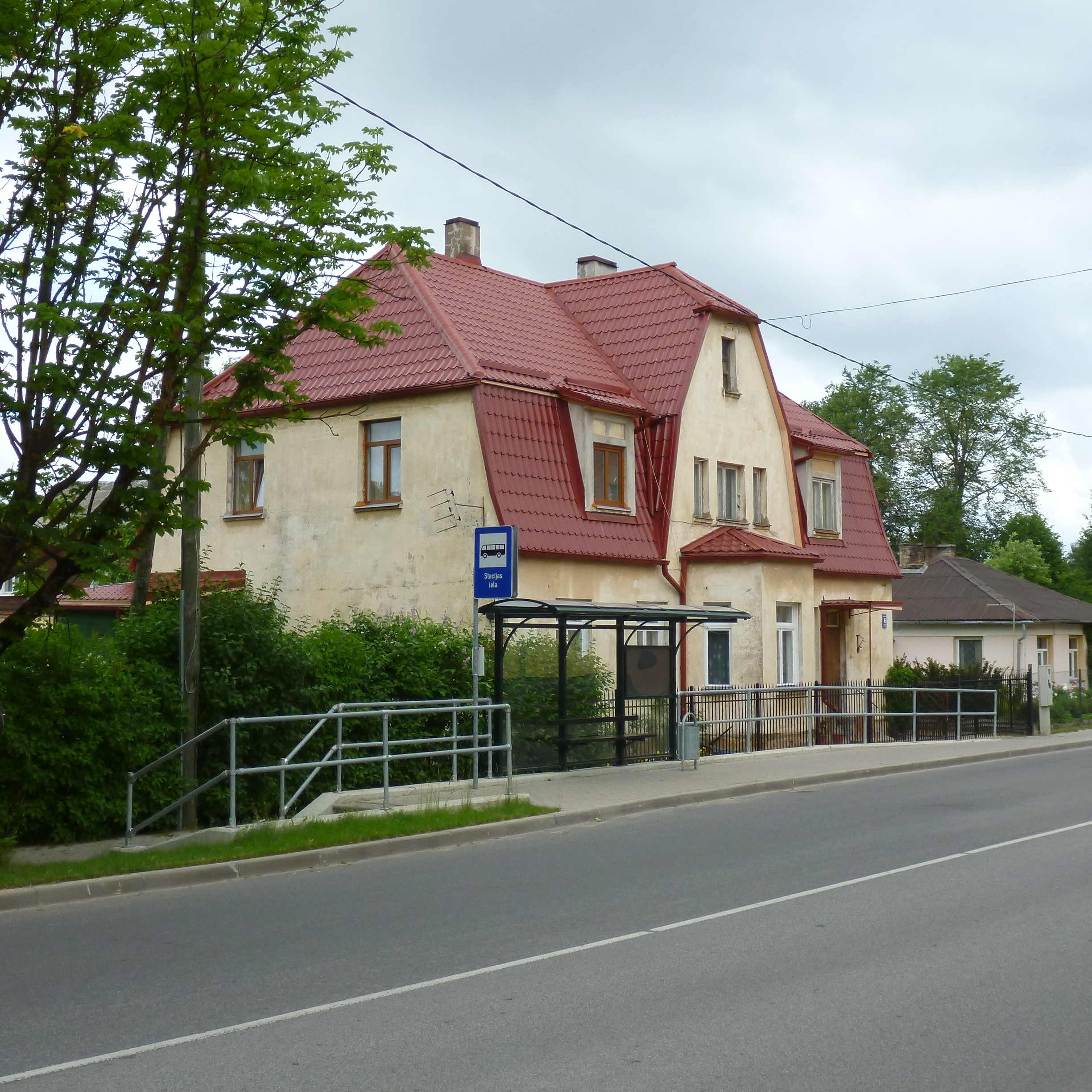 A house in Valmiera